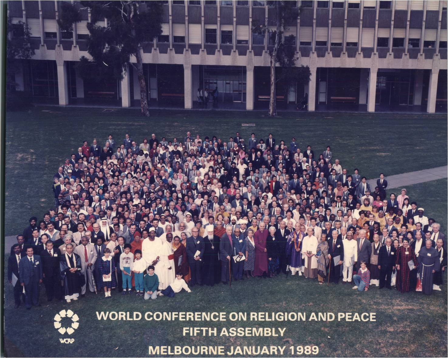 World conference on religion and peace fifth assembly